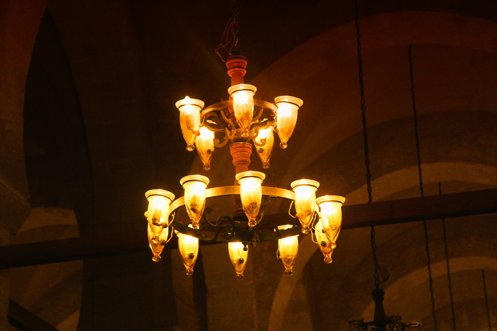 Great Mosque of Sfax - Chandelier